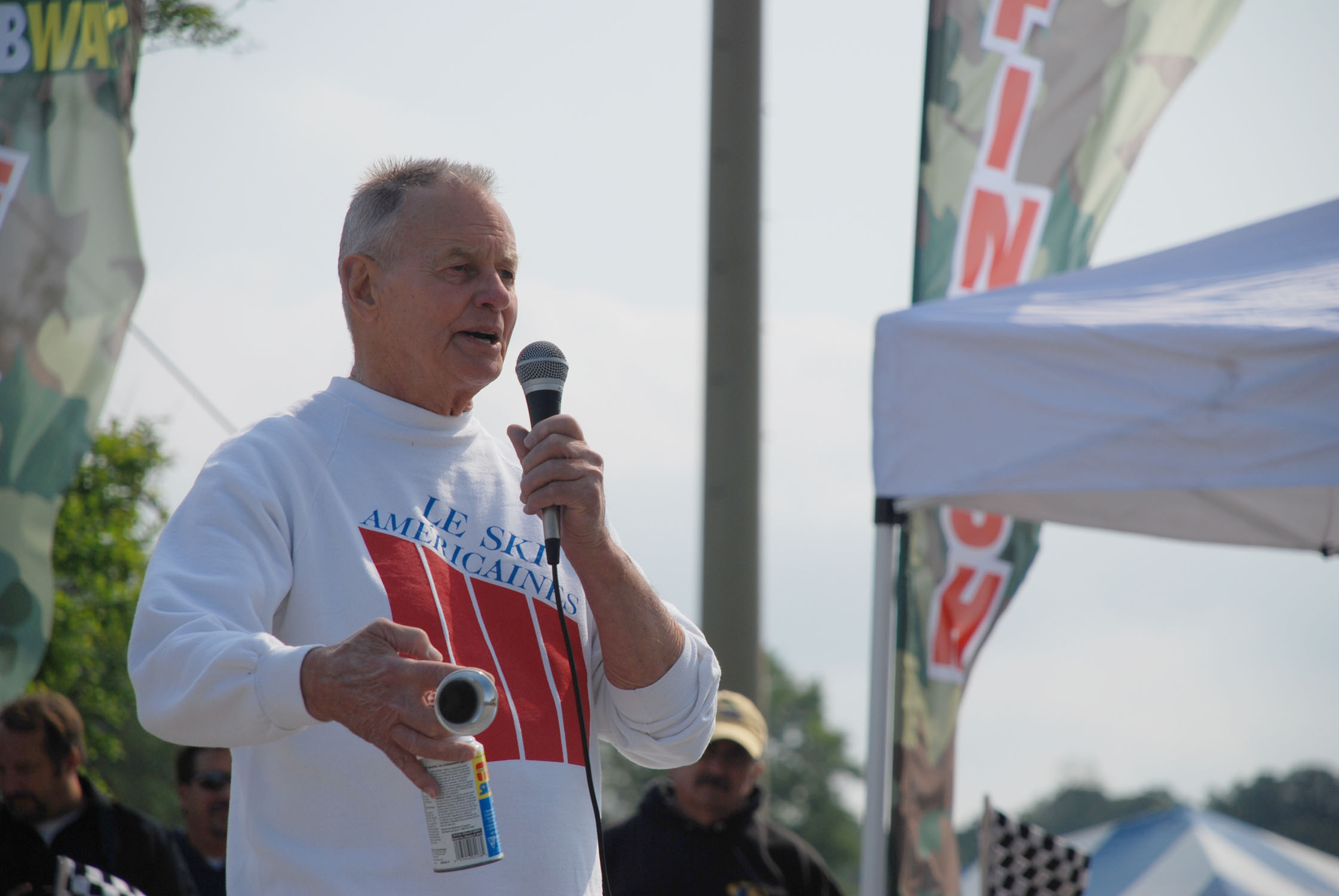 VIRGINIA BEACH, Va. (May 19, 2007) - Retired Navy SEAL Rudy Boesch delivers the opening remarks and thanks runners for participating in the 3rd annual Rudy Run SEAL Challenge at Naval Amphibious Base Little Creek. Boesch hosted the Rudy Run to raise money for the Navy Special Warfare Foundation. U.S. Navy photo by Mass Communication Specialist 2nd Class Elizabeth Merriam (RELEASED)